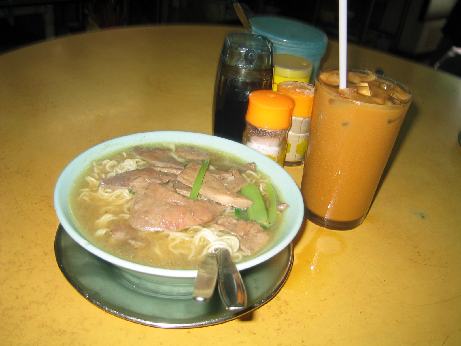 香港深水埗耀東街一家大牌檔的食品－－豬膶麵與奶茶。Milk tea and a bowl of instant noodle with pig liver, served at a dai pai dong on Yiu Tung Street, Sham Shui Po, Kowloon, Hong Kong.